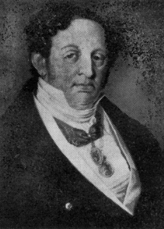 Magnus-Lorentz Ekelund